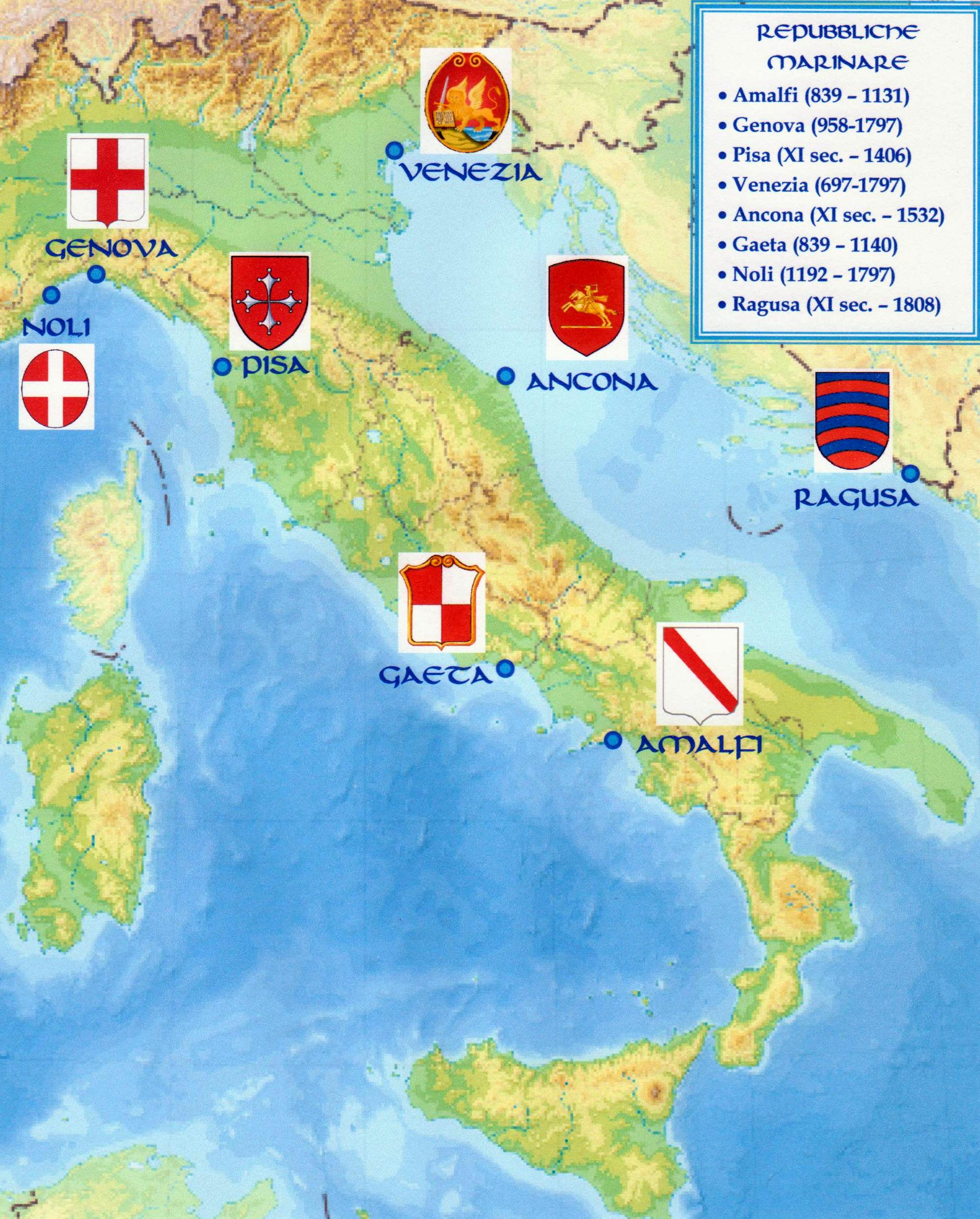 that map shows the location of the maritime republics and their ancient coats of arms